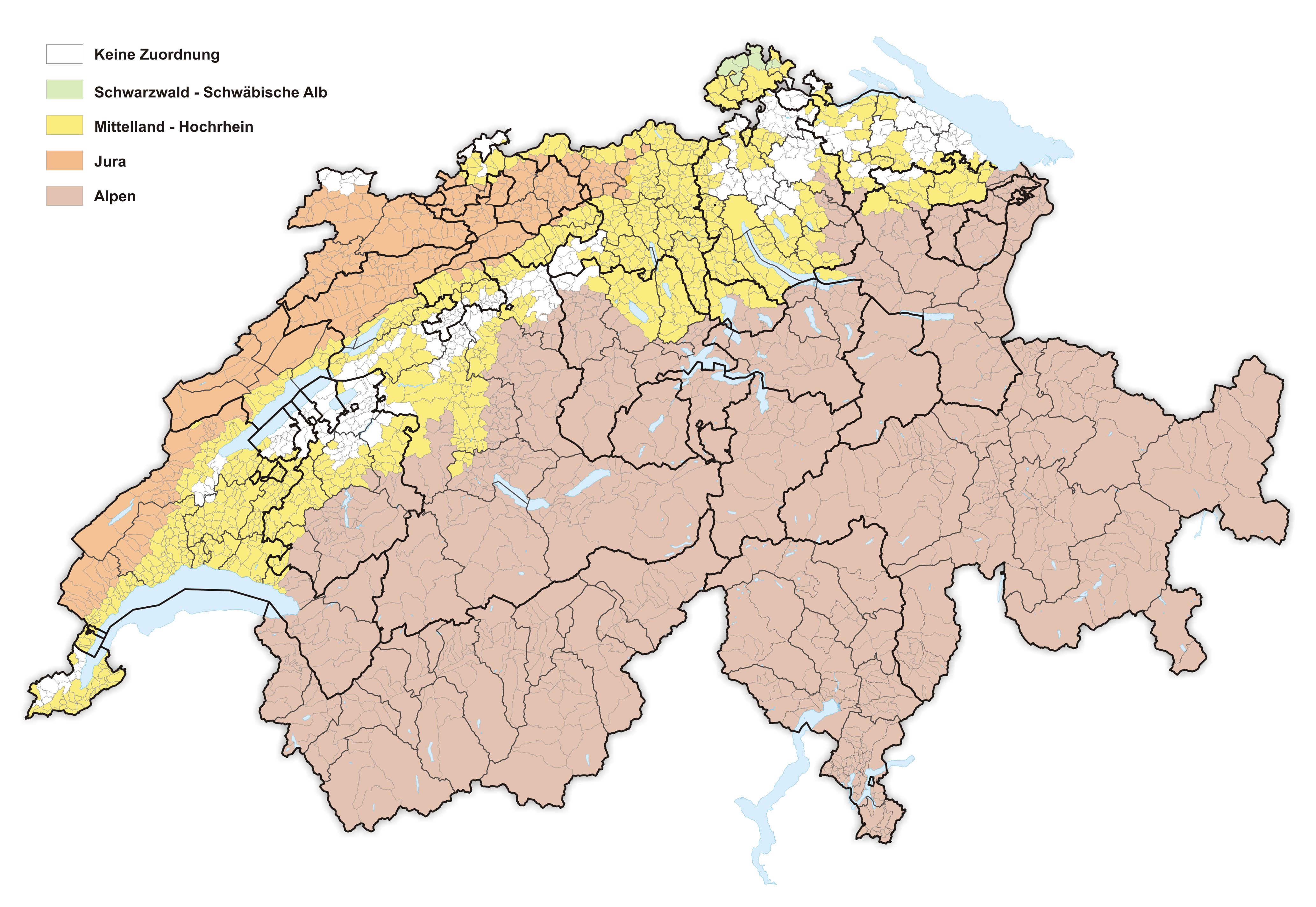 Swiss Mountain area region